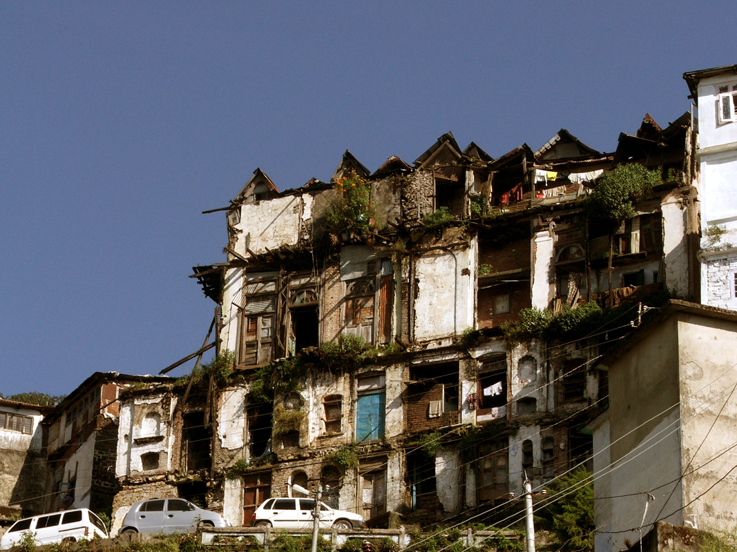 Sic transit gloria mundi. Old Houses in Mussorrie, Uttarakhand.